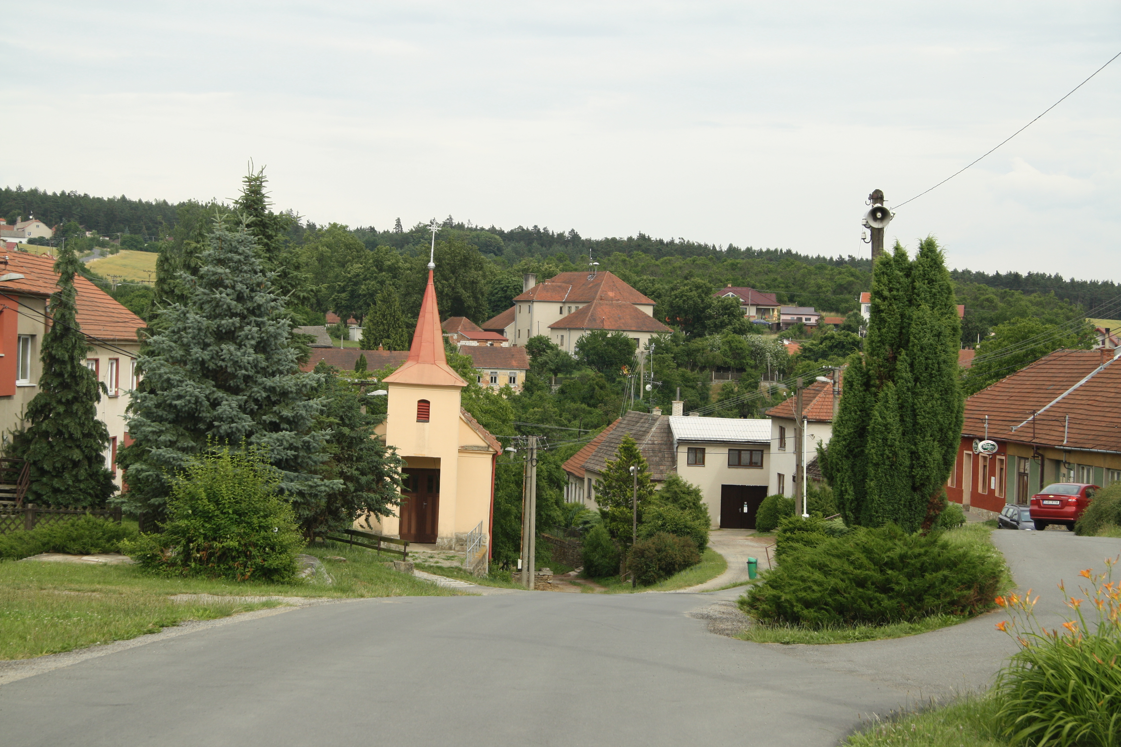 Center of Sudice, Třebíč District.